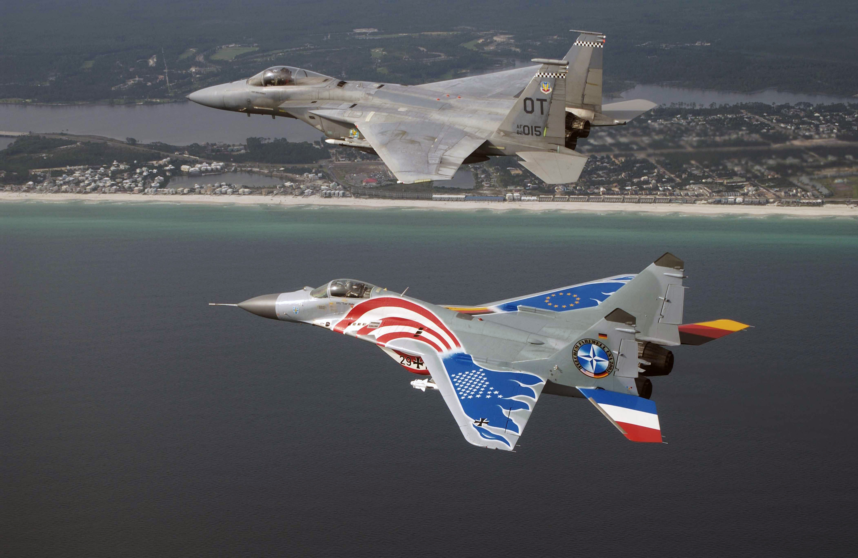 A special painted German Mikoyan-Gurevich MiG-29 fighter (s/n 29+10) flown by German Luftwaffe (Air Force) pilot Oberstleutnant (Lieutenant Colonel) Tom Hahn, Squadron Commander of Jagdgeschwader 73 (JG 73) (73rd Fighter Wing) "Steinhoff", from Laage, Mecklenburg-Vorpommern, Germany, stays in formation with a U.S. Air Force McDonnell Douglas F-15C-33-MC Eagle (s/n 82-0015) piloted by Major Greg Thomas from the 28th Test Squadron, Nellis Air Force Base, Nevada (USA), over the Gulf of Mexico during a joint training exercise on 14 May 2003.